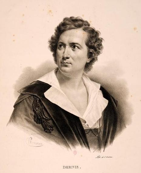 Portrait of French opera singer Henri-Etienne Dérivis (1780-1856)